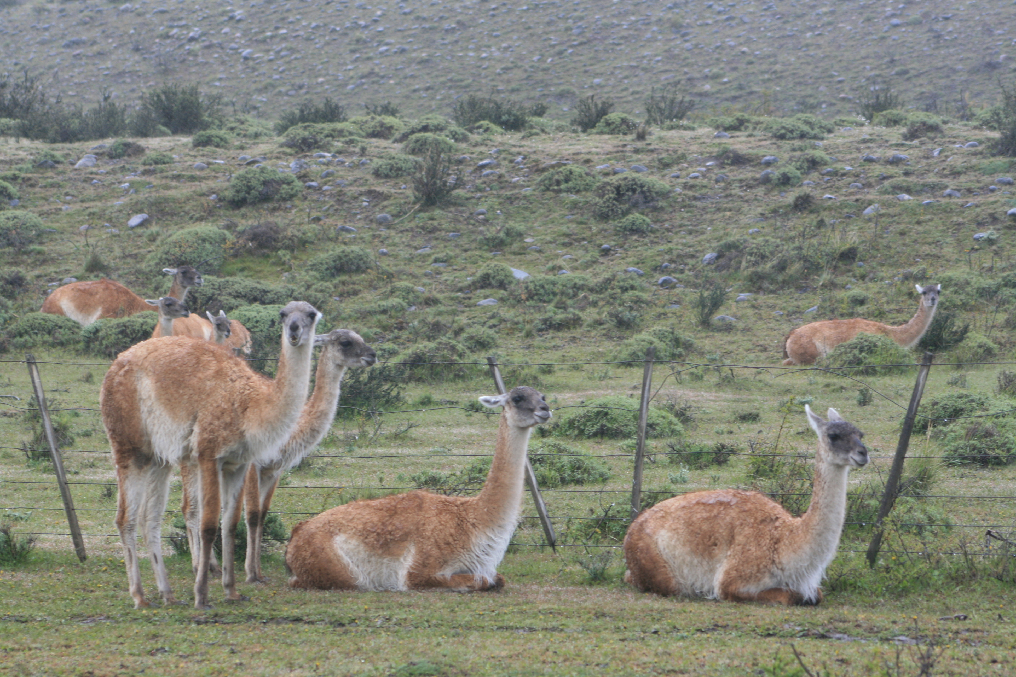 Guanacos (Lama guanicoe), Torres del Paine National Park, Chile